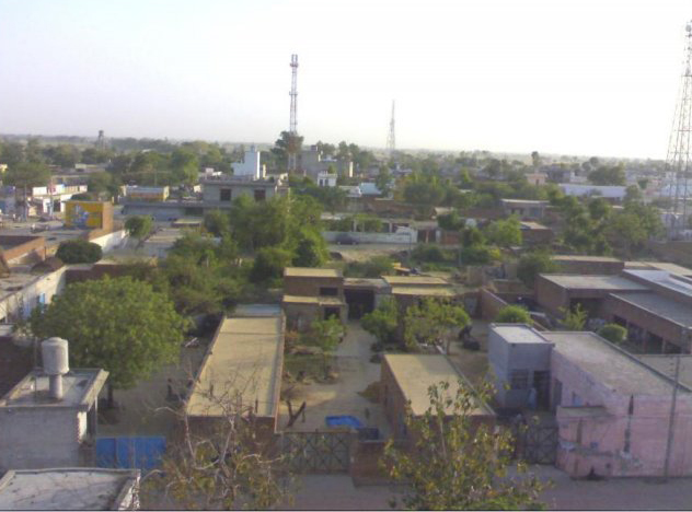 Skyline